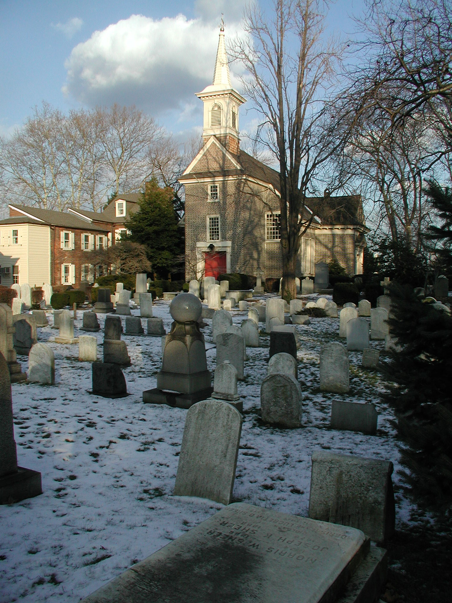 View from the cemetery of Gloria Dei Church, Philadelphia, USA